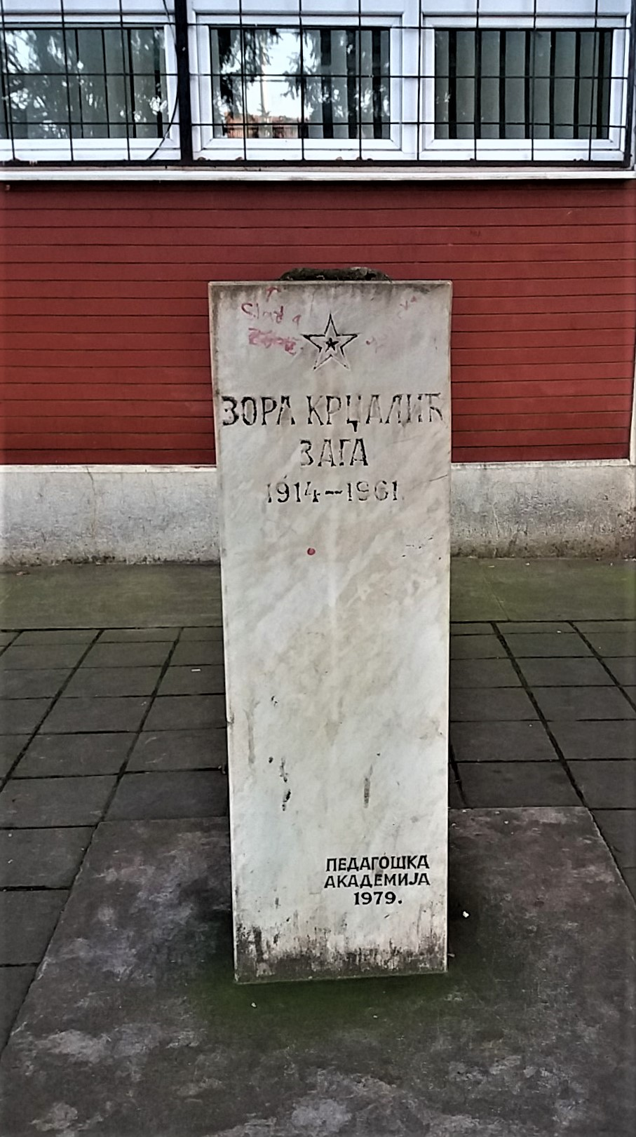 The bust of Zora Krdzalic Zaga was on this postament Srpski (latinica): Postament na kojem se nalazila bista Zore Krdzalic Zage, ispred zgrade nekadasnje Pedagoske Akademije, danas srednja strukovna skola za obrazovanje vaspitaca